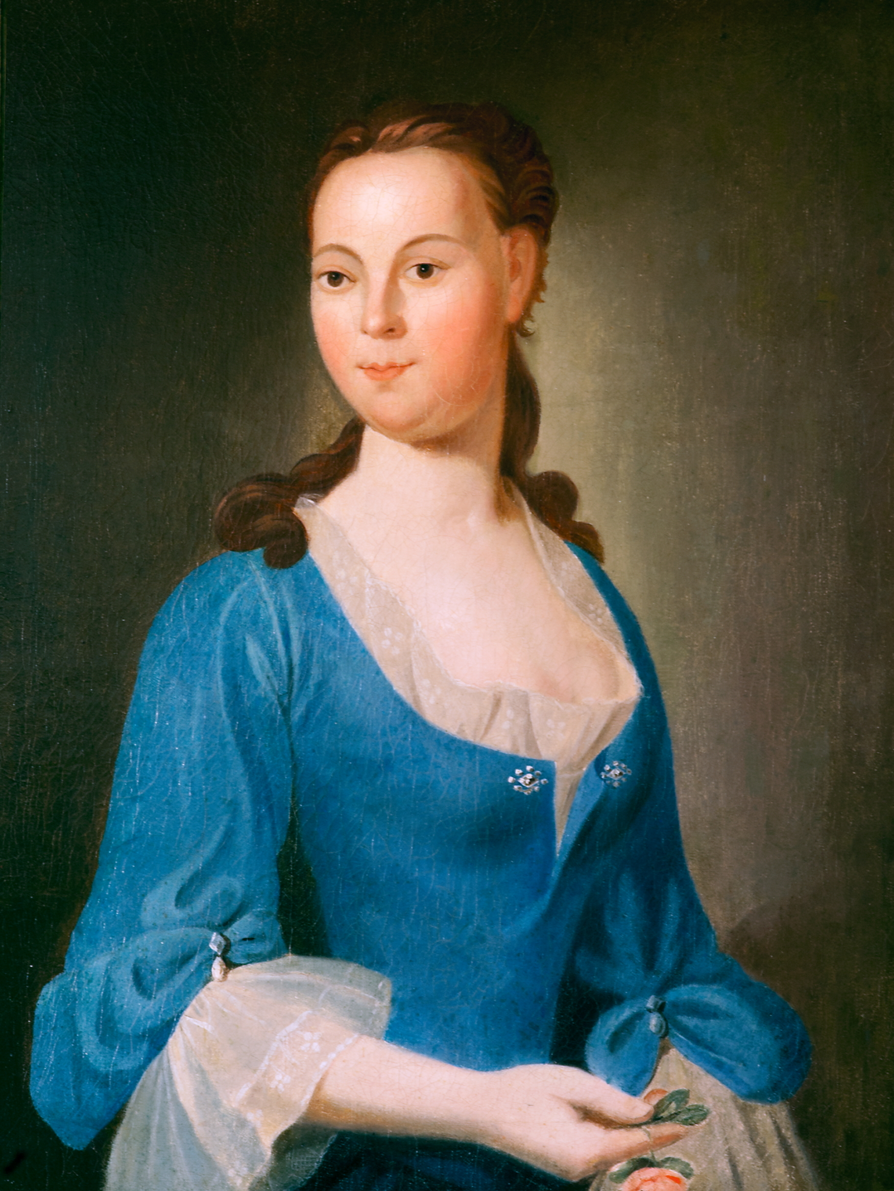 Dimensions: 36 x 31 in. (91.44 x 78.74 cm.)